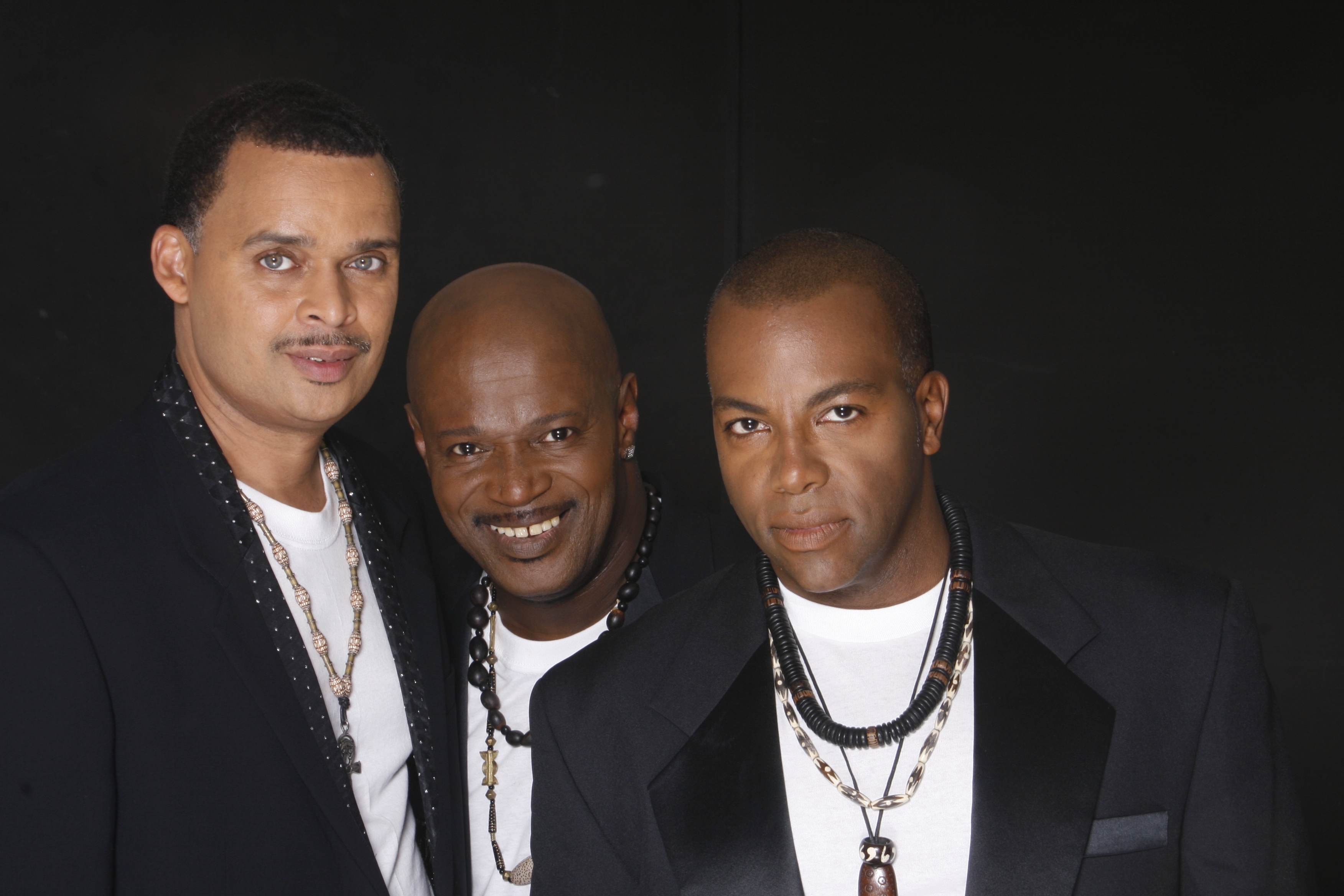 Black Ivory Photo Shoot 2007 in Teaneck, NJ